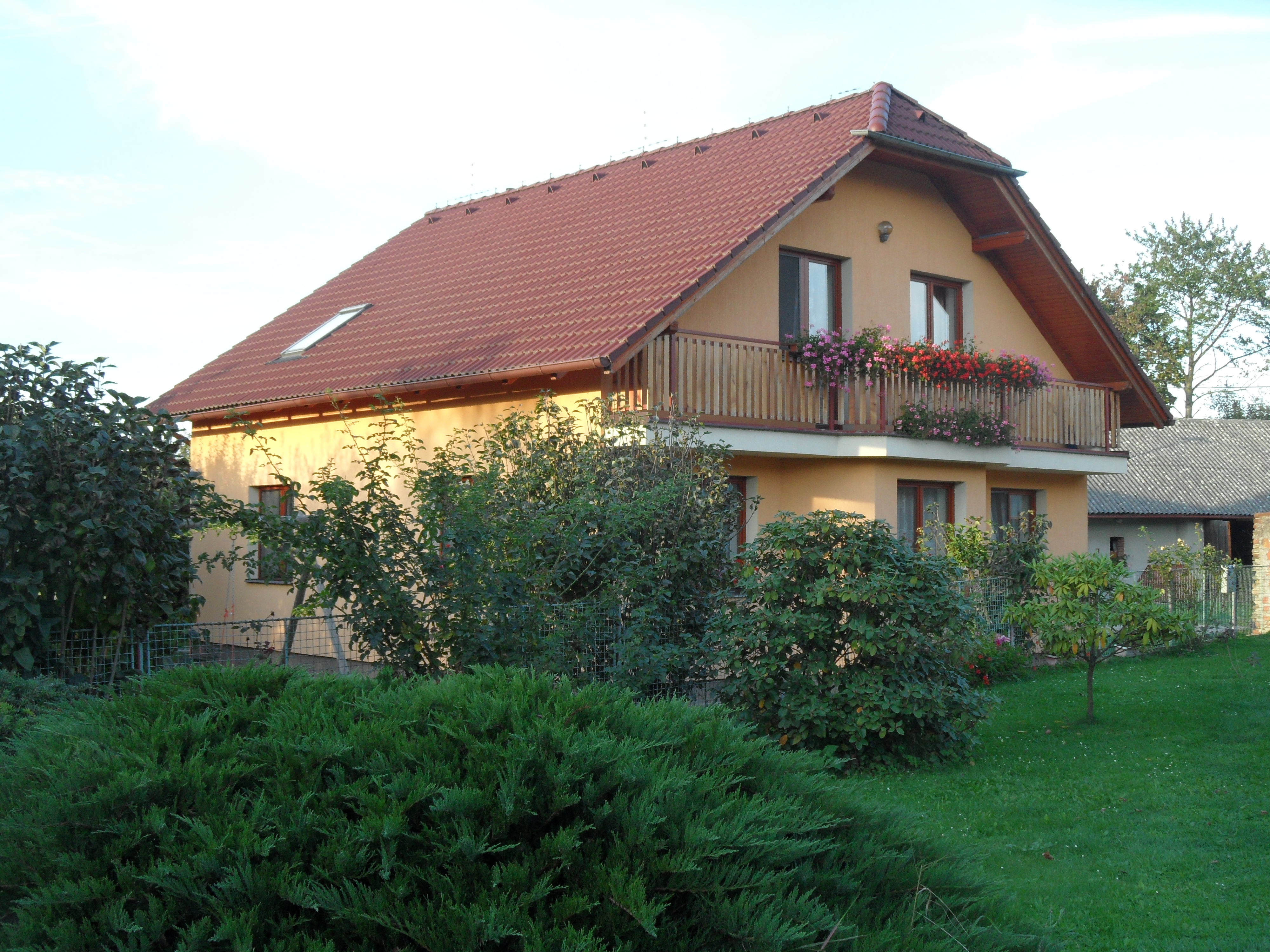 Miletín (Onomyšl) A. New Family House with Garden, Kutná Hora District, the Czech Republic.